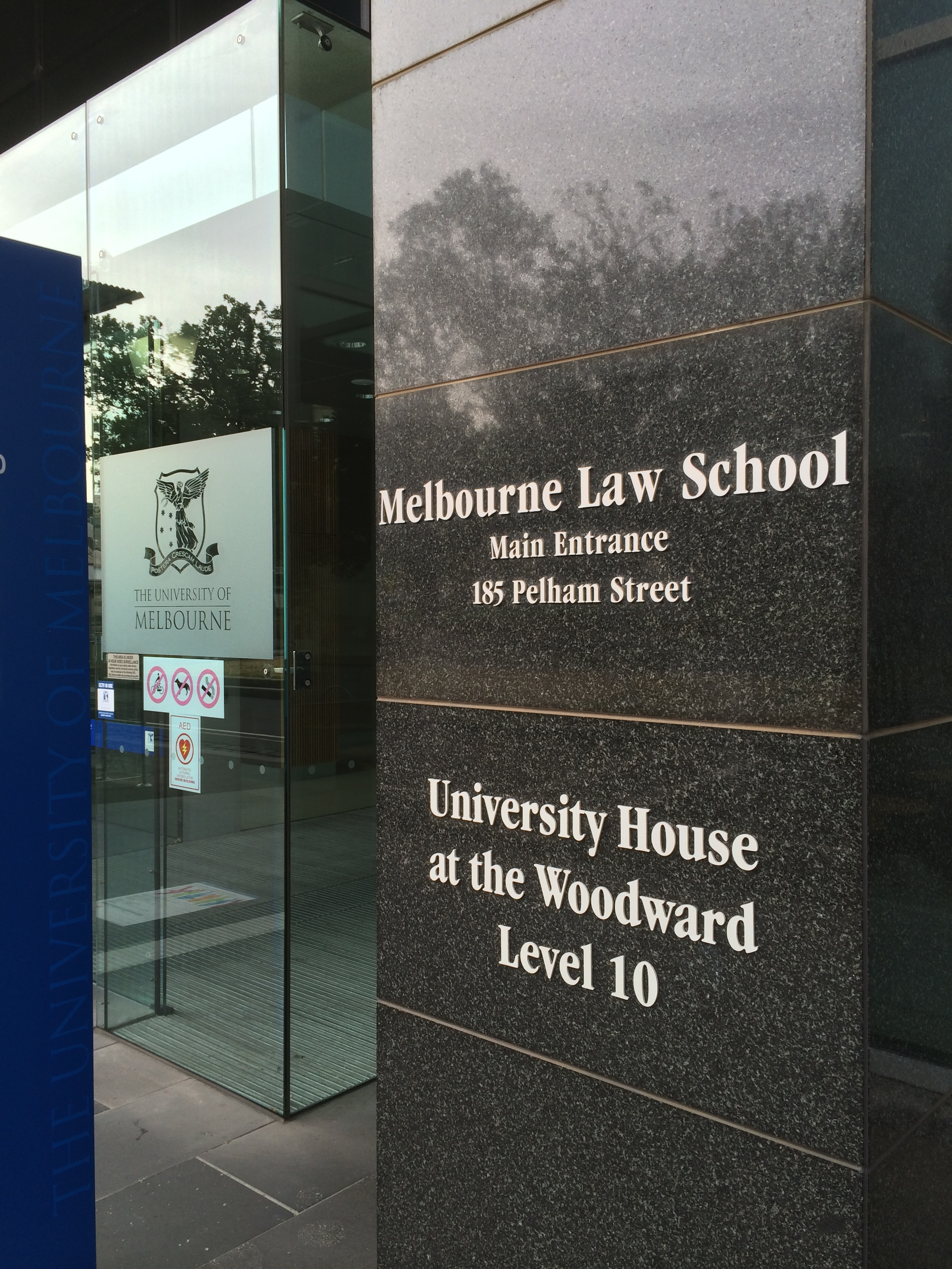 View of the entrance to Melbourne Law School